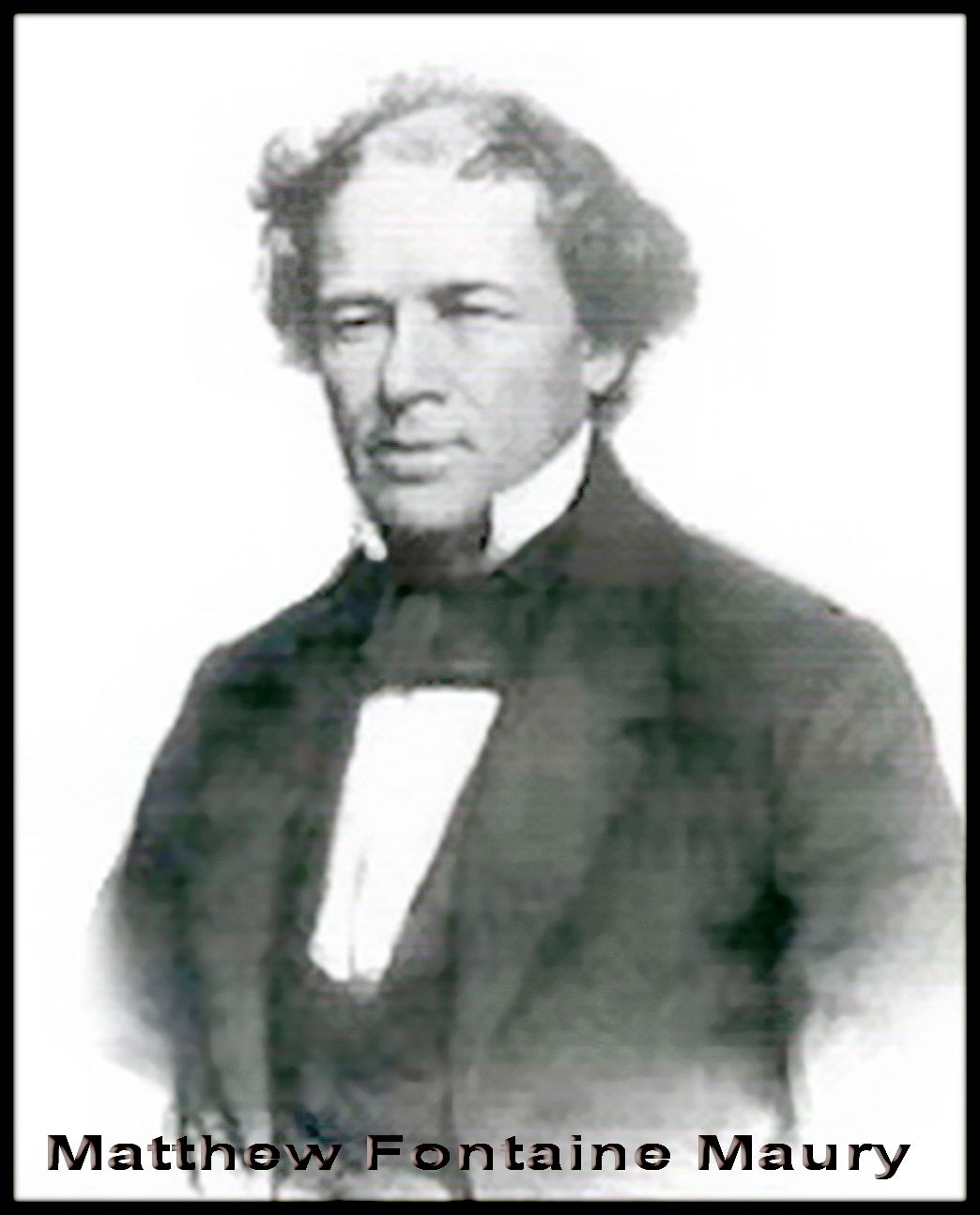 Matthew Fontaine Maury